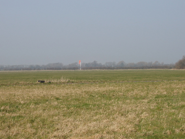 Weston-on-the-Green grass airfield for parachuting and gliding The airfield is used for military parachuting, also by Oxford Gliding Club who warn "With the level of parachute activity described, it would be foolhardy to blunder into the airspace above the airfield without knowing what is going on." about RAF Weston-on-the-Green for more information on the military training, including aerial photographs.